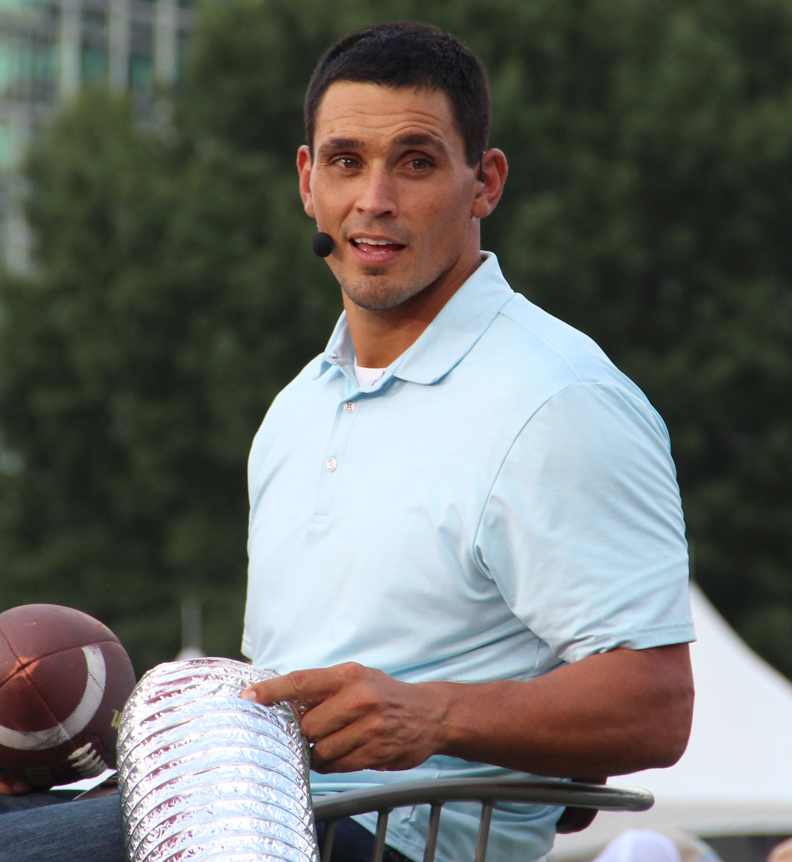 David Pollack at the 2018 SEC Summerfest